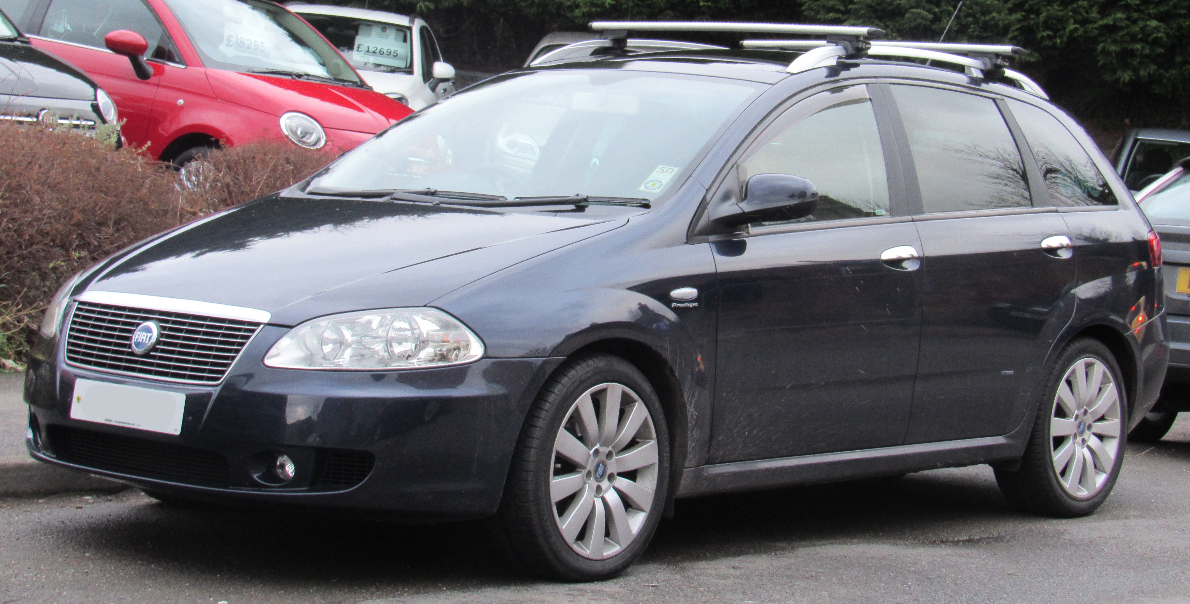 2005 Fiat Croma P-Gio Multijet JTD200 Automatic 2.4 Front Taken in Warwick